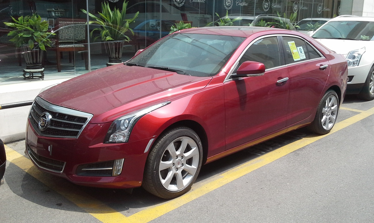 Cadillac ATS photographed in Shanghai, China.